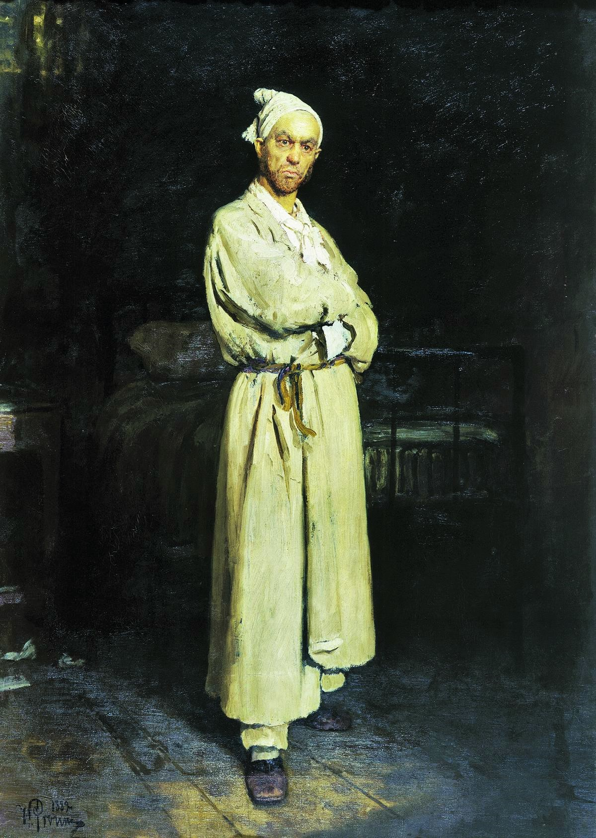 Poprishchin (protagonist of the novel by Nikolai Vasilievich Gogol “Diary of a Madman”)